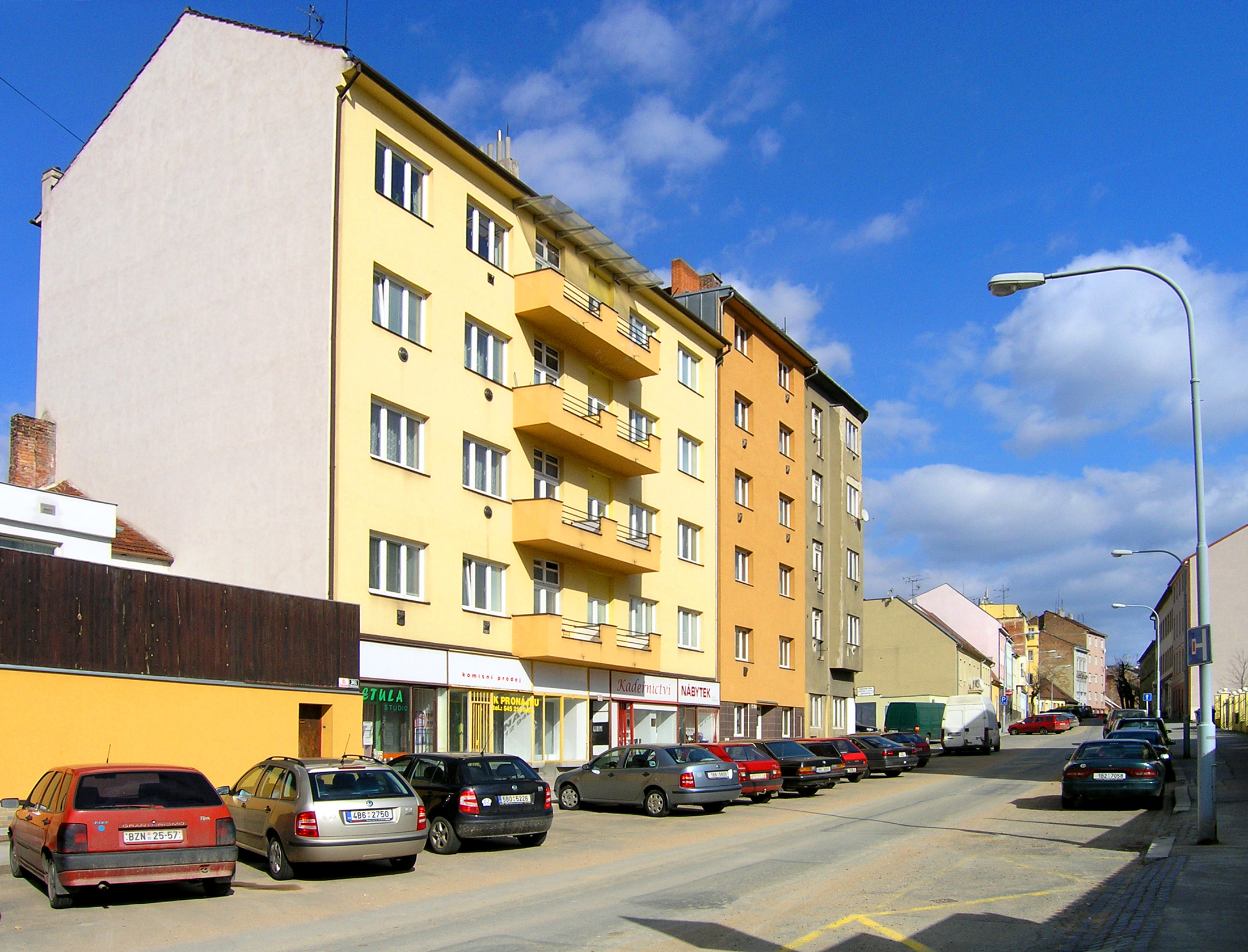 Francouzská street in Zábrdovice quarter in Brno, Czech Republic